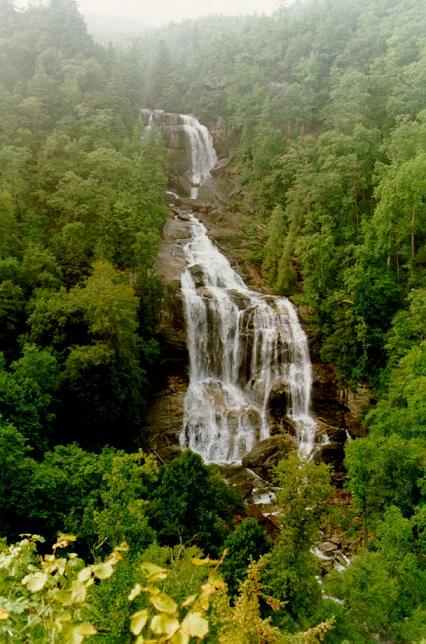 I took this photo of Whitewater Falls in North Carolina on September 3, 1989, on a somewhat misty, overcast afternoon.